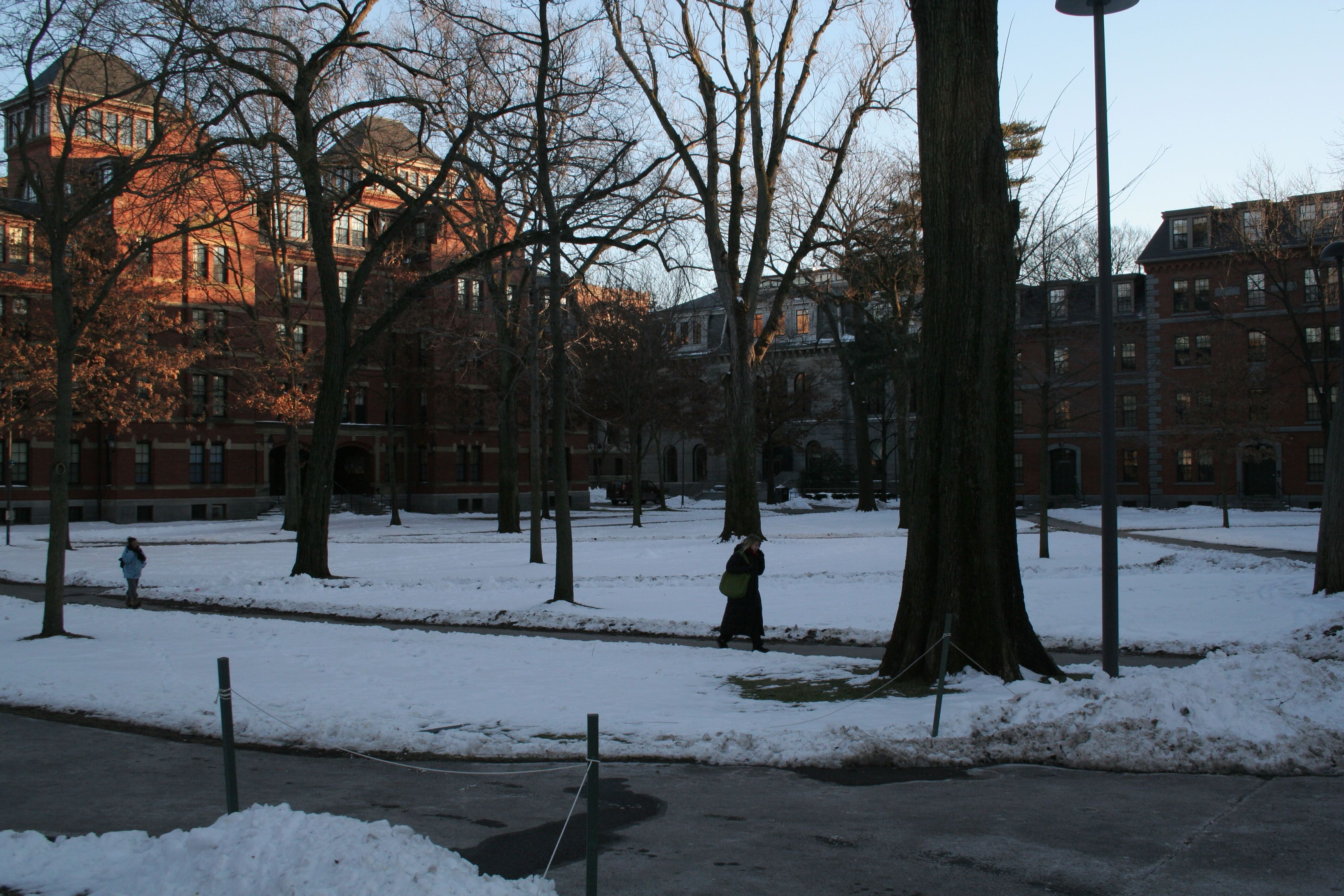 Harvard Yard late afternoon